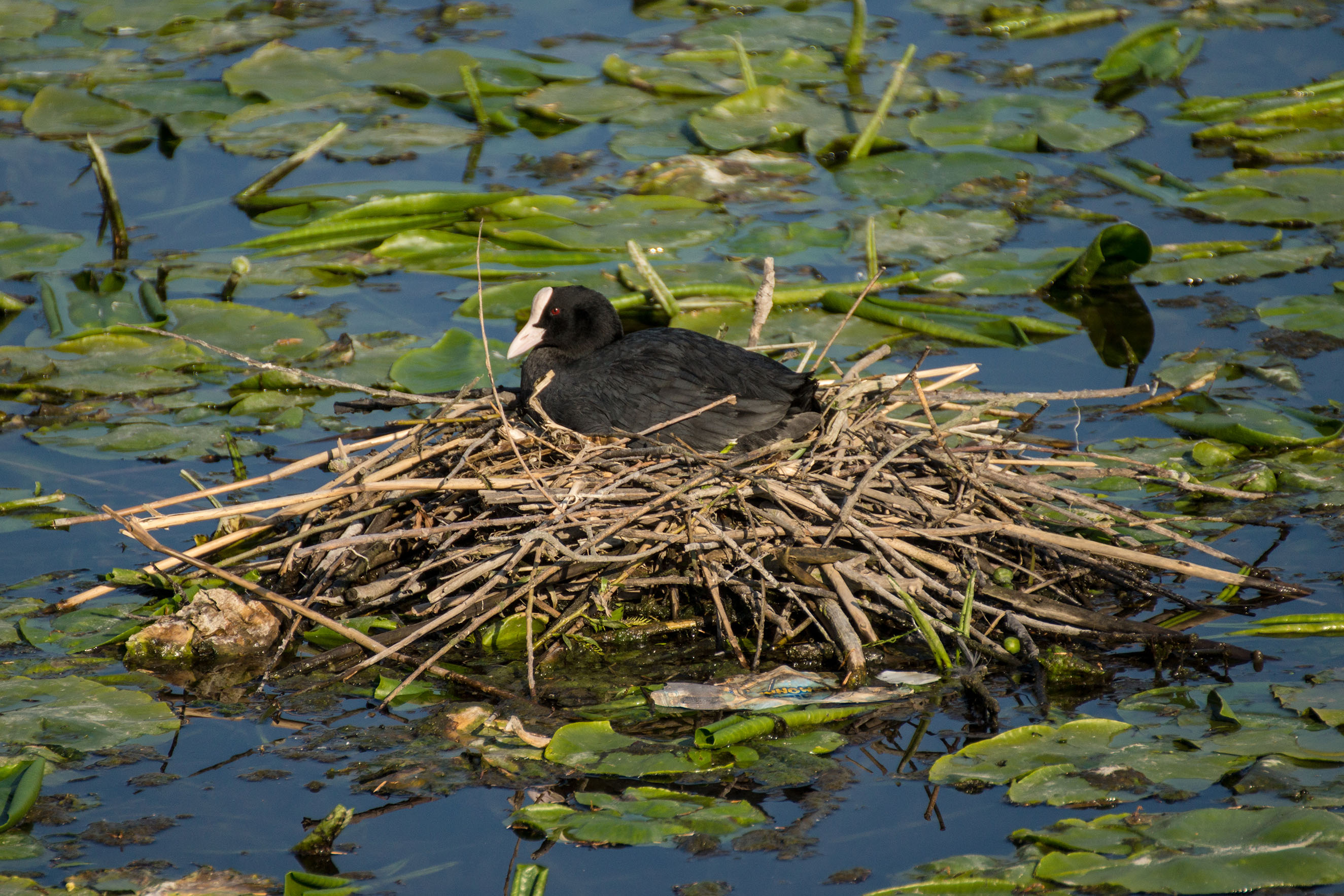 Adult Eurasian Coot on the nest.